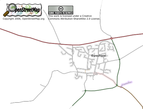 Created by me using OpenStreetMap data (also collected by me), and the osmarender application . OSM is CC SA 2.5.